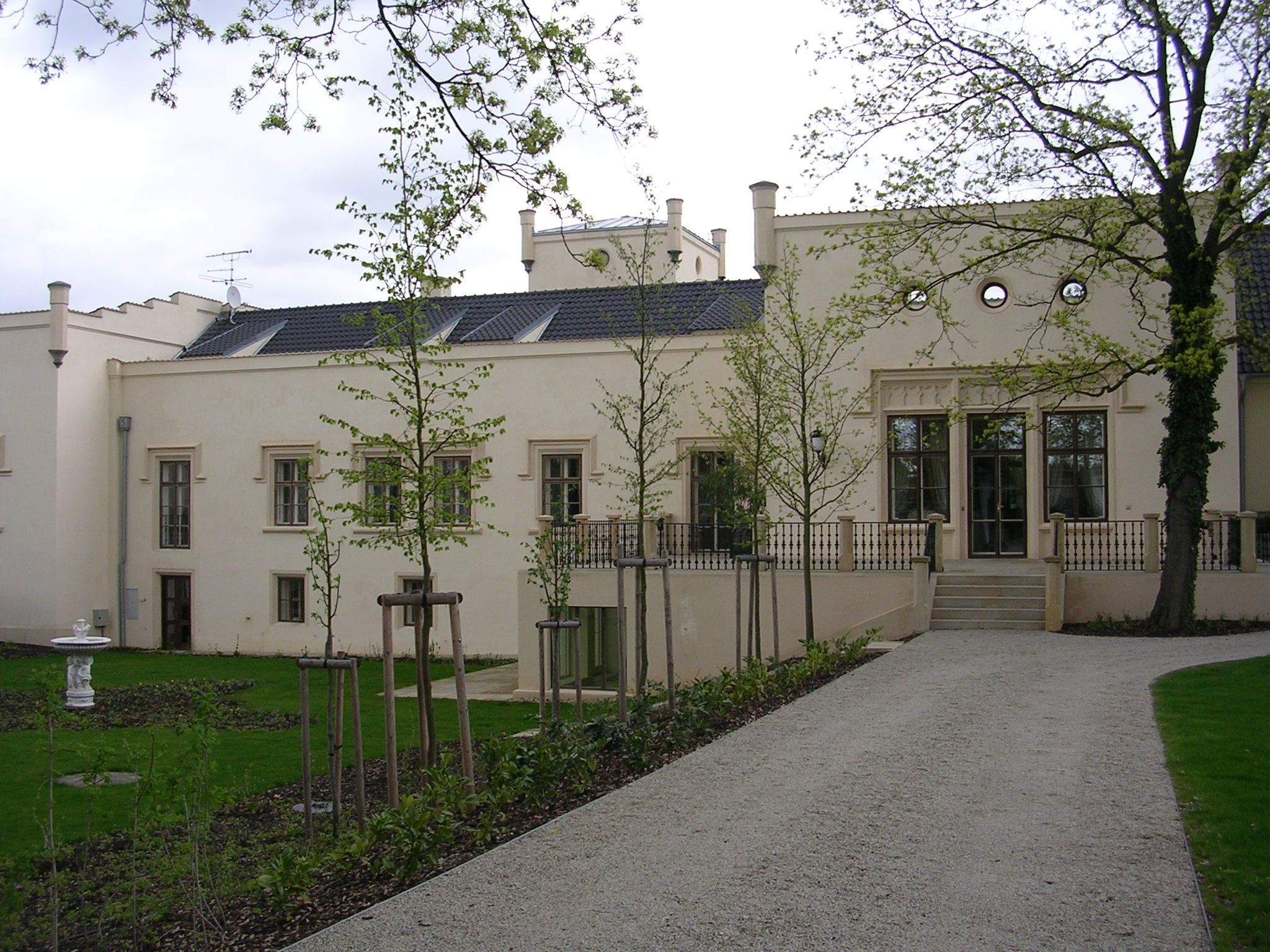 Trnová, Central Bohemian Region, the Czech Republic. The castle.